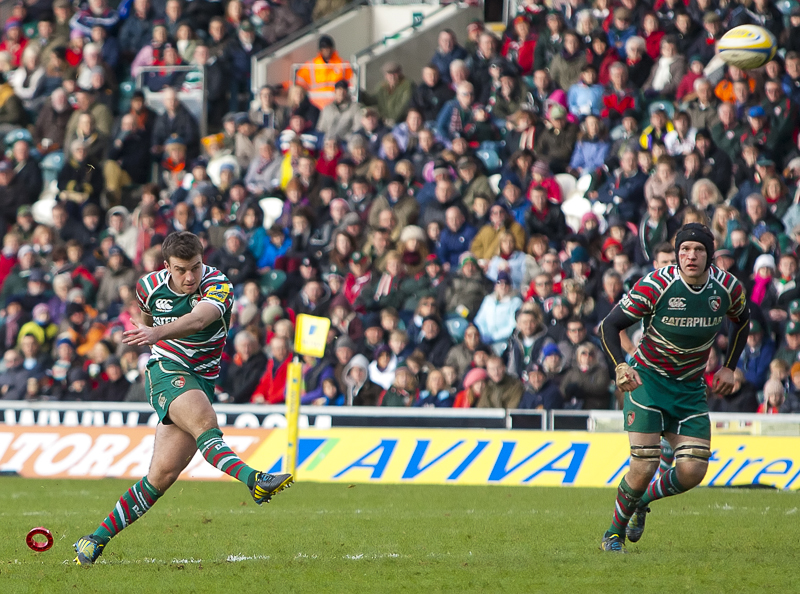 Leicester's George Ford kicks a penalty. Leicester Tigers vs Bath, Aviva Premiership, Welford Road, Saturday 1st December 2012